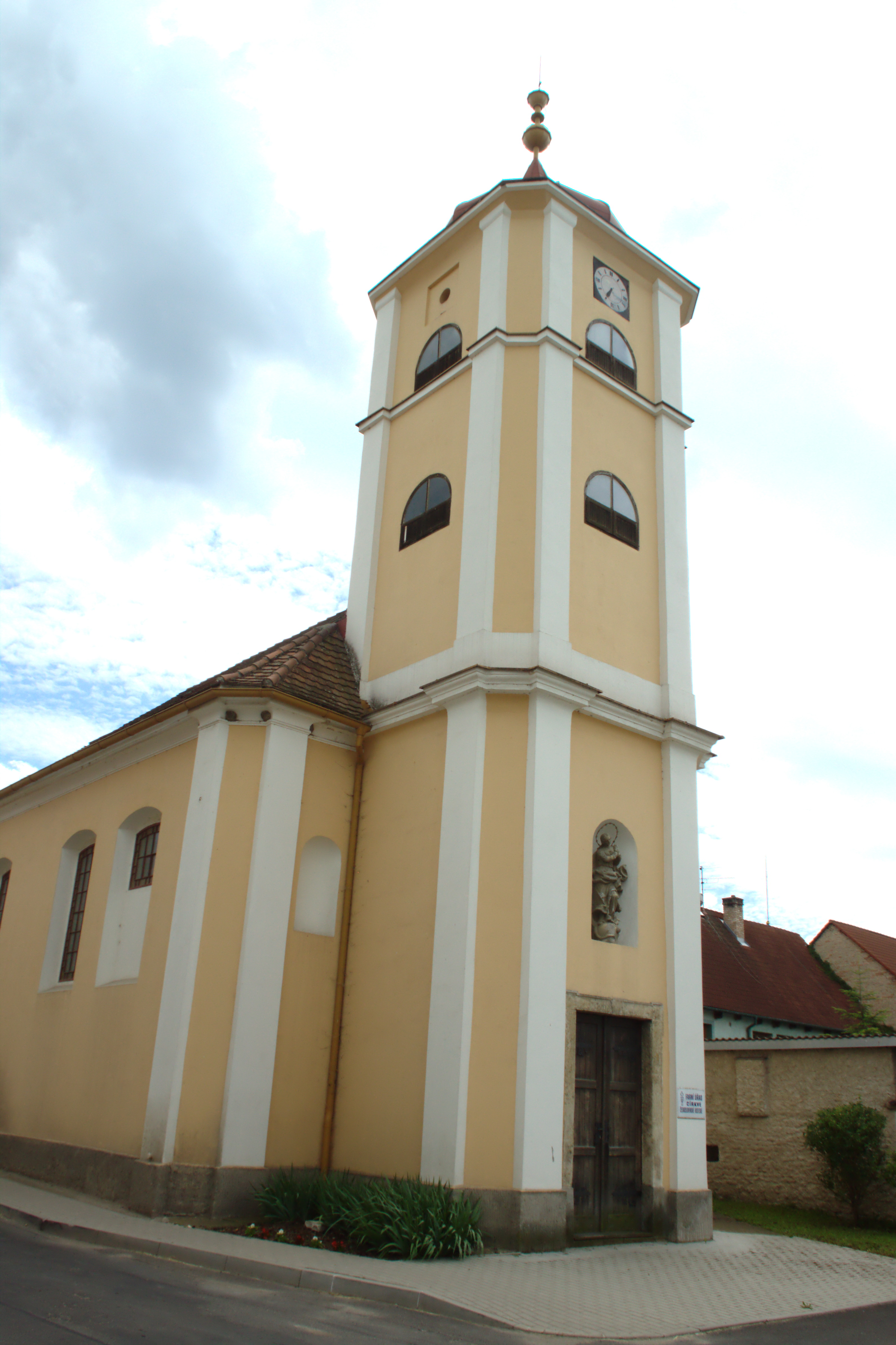 A church in the central part of the town of Vrbice, Ústí Region, CZ